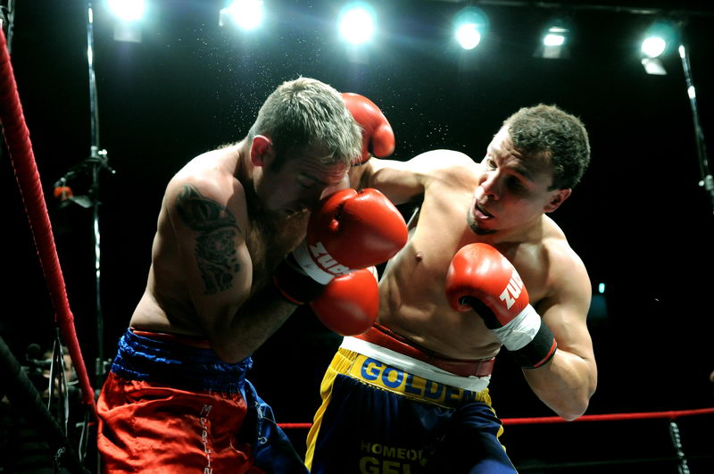 Boxing in Montevideo, Uruguay. Richard Vidal (URU) vs. Fernando González (ARG)